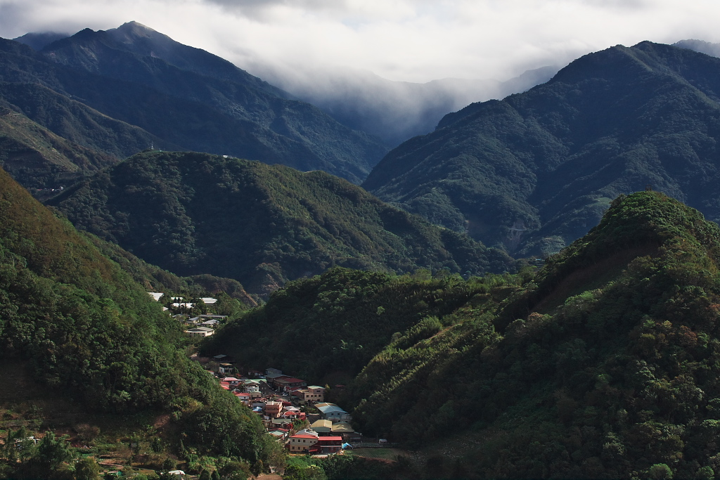 Looking down towards Chunyang. The "meander-core" can be seen on the right side.